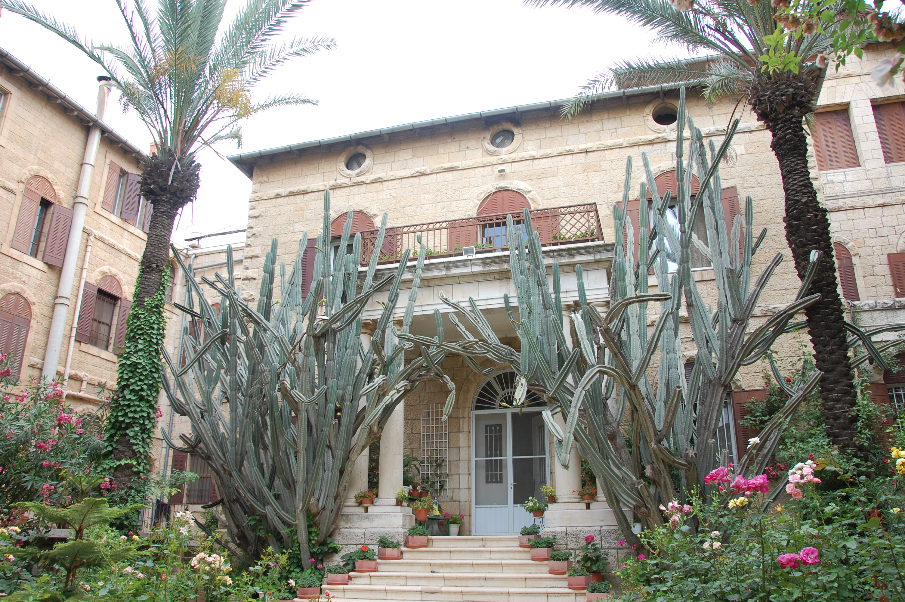 Monastery of Sisters of St. Borromeo, Lloyd George 12, jerusalem